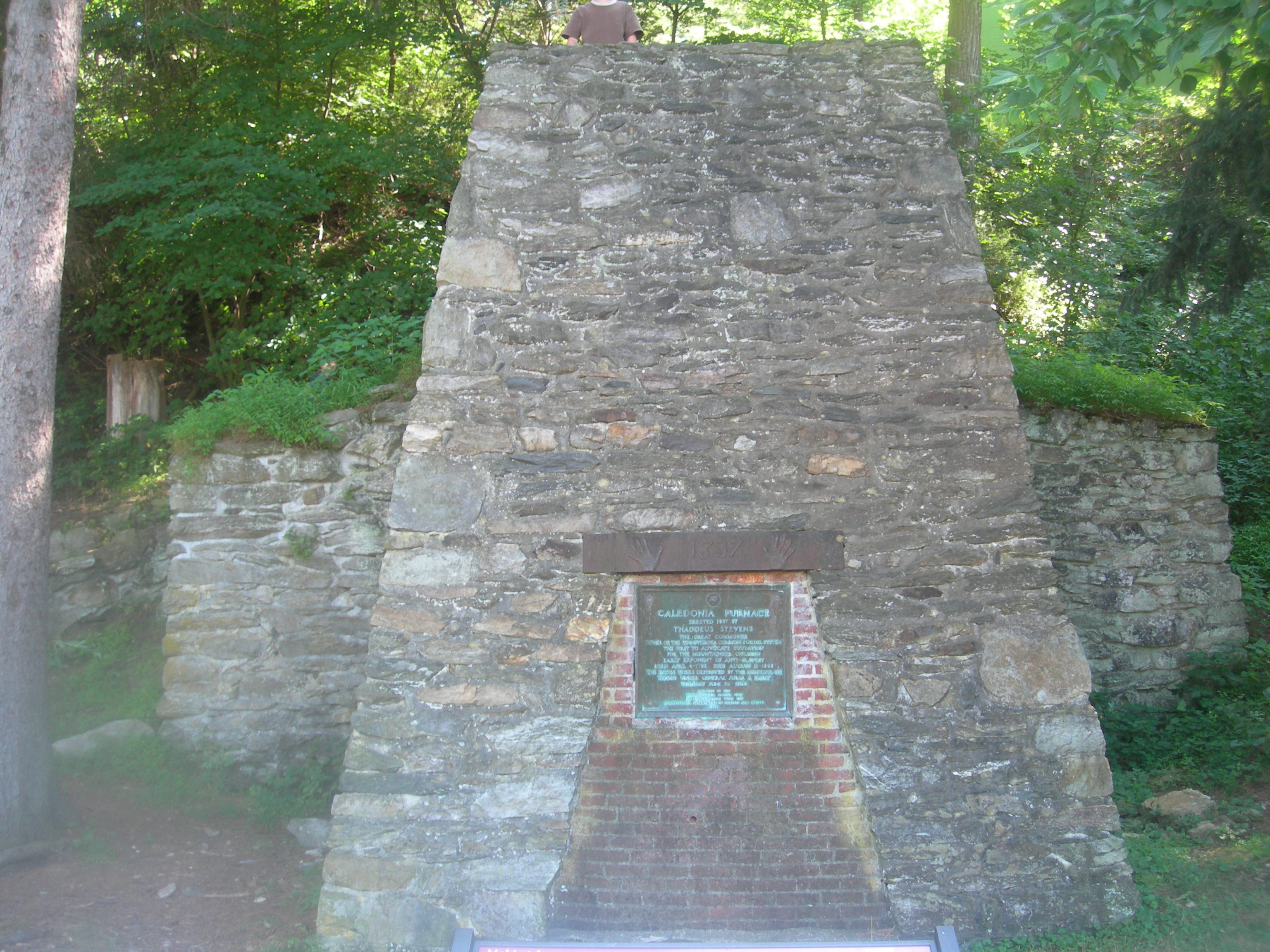 Remains of Caledonia Furnace at Caledonia State Park